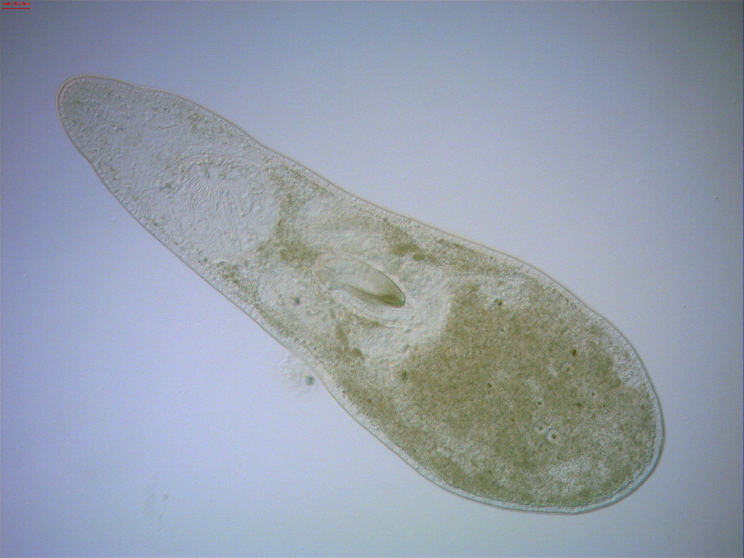 Prorhynchella minuta from a Connecticut forest.